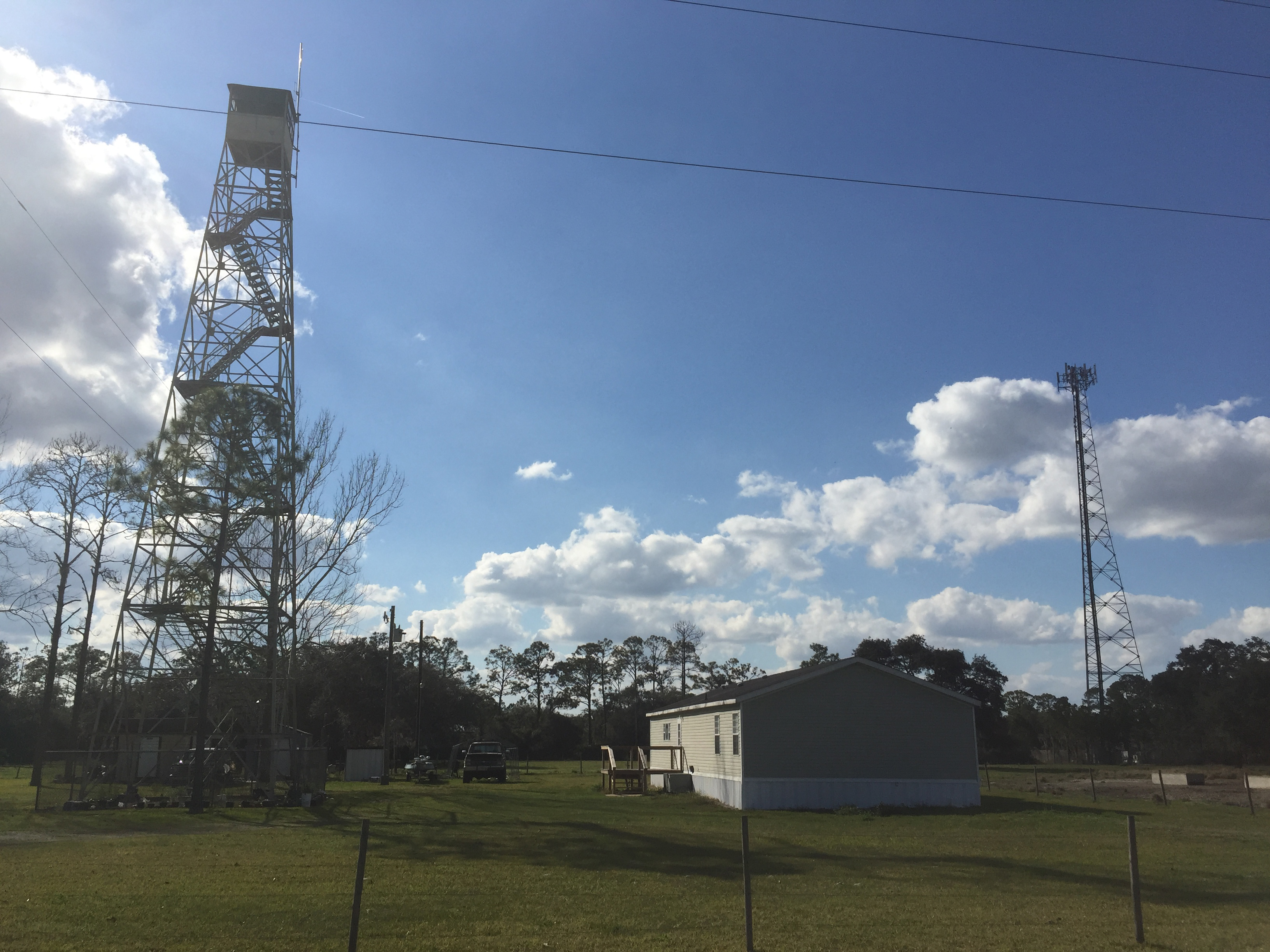 Florida Department of Agriculture and Consumer Services Deer Park Forestry Site, 6032 Kempfer Road, Saint Cloud, Florida in Deer Park.